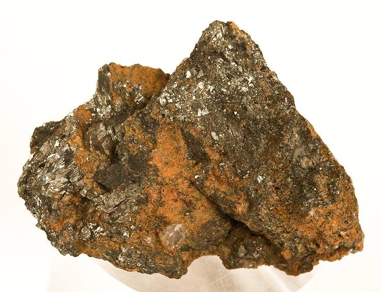 Tellurium Locality: Burro Mountains District, Grant County, New Mexico, USA (Locality at ) Size: 3.2 x 2.4 x 0.9 cm. Native tellurium is an uncommon element. The matrix on this old-time specimen is richly covered with lustrous, tin-white tellurium plates and hails from the Burro Mountains District, Grant Co., New Mexico. Accompanied by an old, faded Ward’s label. The collection this came out of was a museum stash dating to prior to World War I.